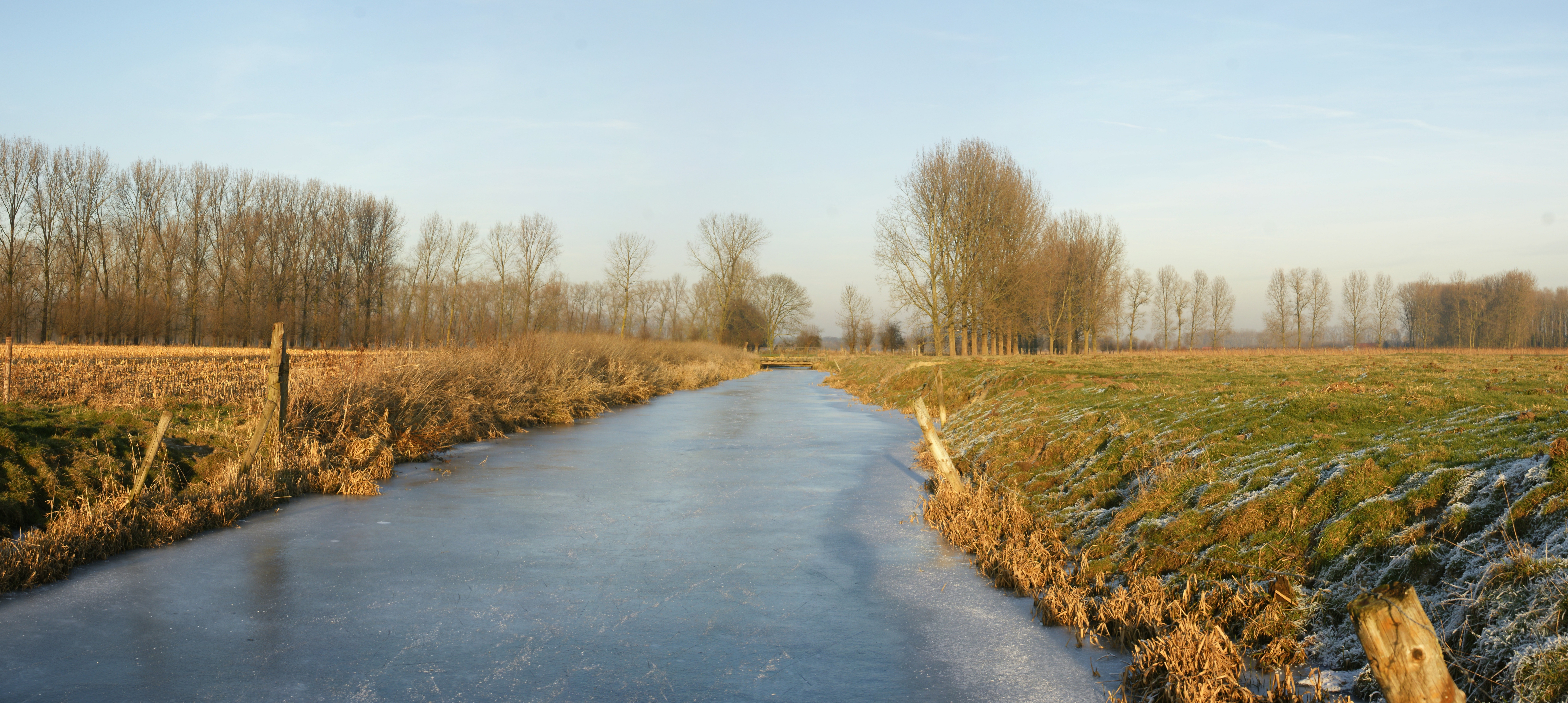 Winter landscape in Moerbrugge, Oostkamp, Belgium.